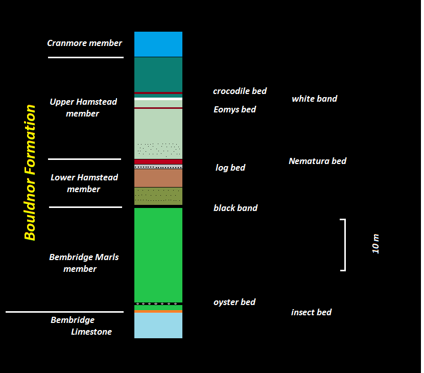 Stratigraphic column of the Bouldnor Formation, Hampshire Basin, England.